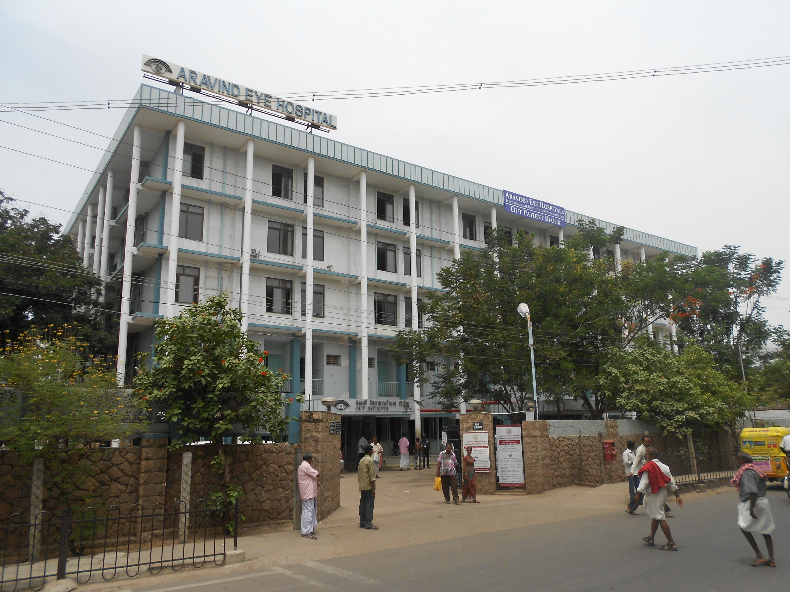 Aravind eye hospital madurai